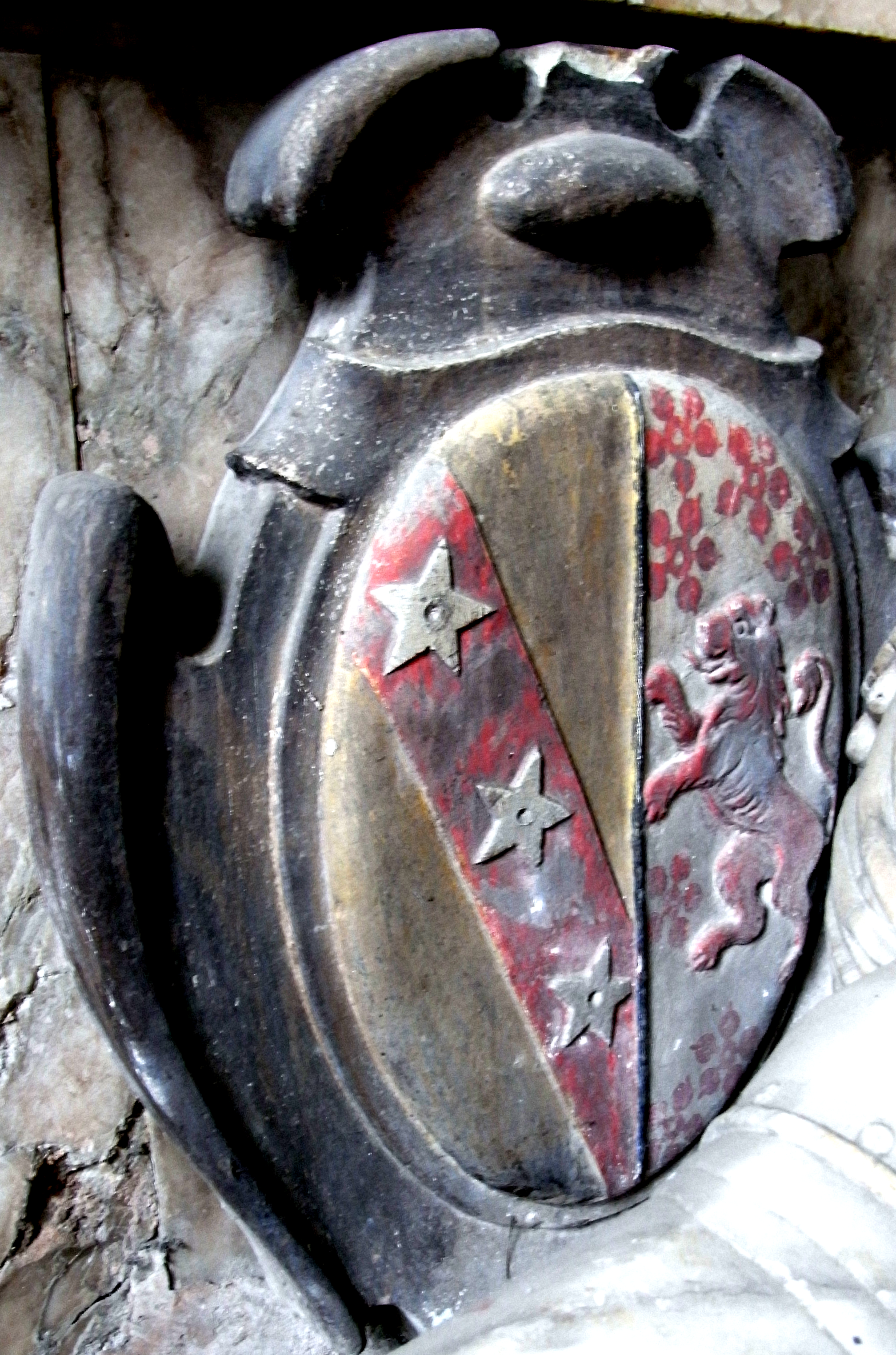 Arms of Bampfield (Or, on a bend gules three mullets argent) impaling Clifton (Argent semée of cinquefoils pierced gules, a lion rampant of the second), representing the marriage of Sir Amyas Bampfylde (1560-1626) of Poltimore and North Molton in Devon, Member of Parliament for Devon in 1597, and Elizabeth Clifton, daughter of Sir John Clifton of Barrington Court, Somerset. Detail from monument to Sir Amyas Bampfylde in All Saints' Church, North Molton. The correct arms for Clifton of Barrington Court are the arms of Clifton of Clifton Hall, Nottingham (Baron Clifton of Leighton Bromswold (1608) and Clifton Baronets (1611)): Sable semée of cinquefoils and a lion rampant argent. The 1st Baron Clifton of Leighton Bromswold sold Barrington Court in 1605 (Victoria County History)